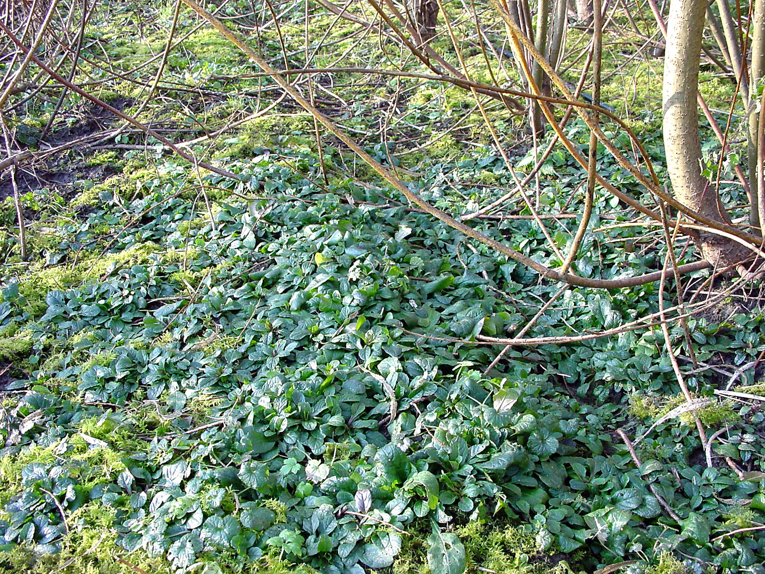 Detail : ground under Coppice short rotation willow (clones), irrigated by water from the purification plant of Villeneuve d'Ascq (town, in northern France) for final purification of water (nitrates, phosphates). (after 3 ou 4 years) This coppice was used to produce wood chips to fuel a boiler-wood.